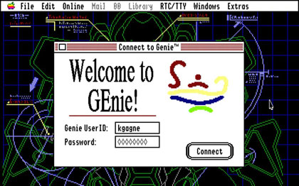 Login screen for the online service provider GEnie, ca. 1997. This was for a graphic front-end called Jasmine, created for the Apple IIGS. GEnie was a service by General Electric and went out of business in 1999.